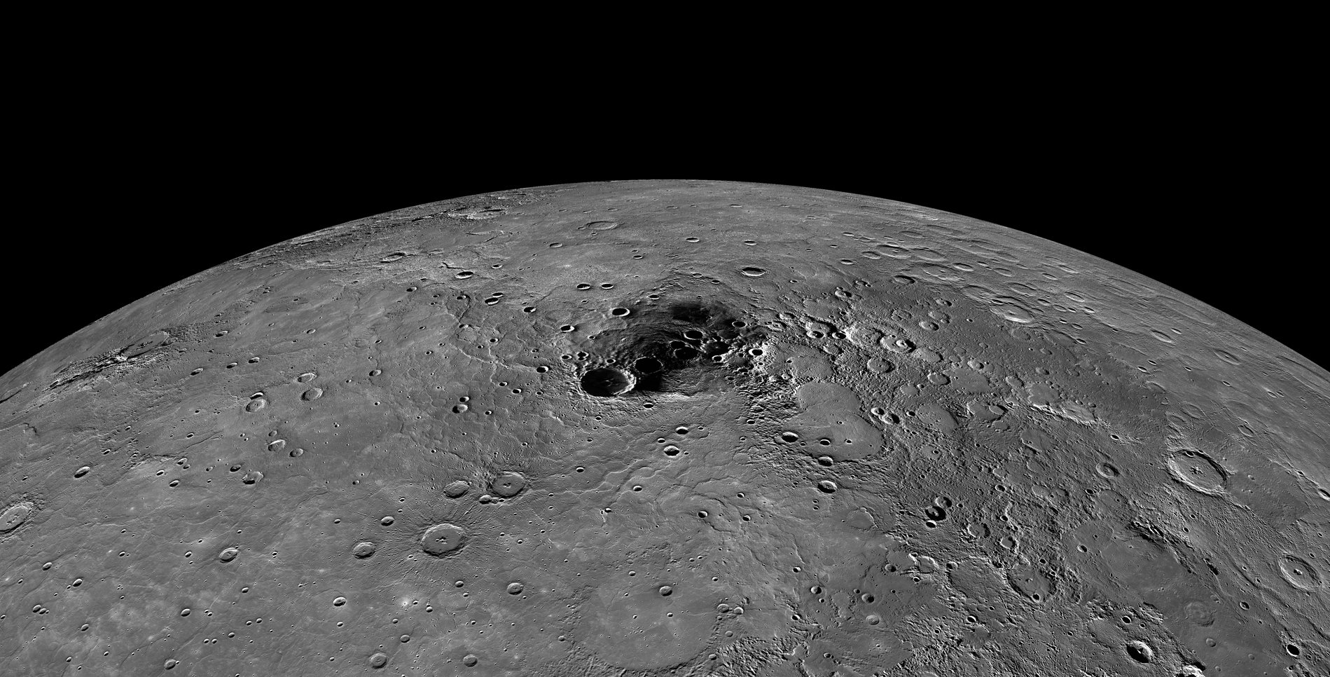 North Pole of planet Mercury. This image is a composite. Original caption: "NASAThe dark region at the center of this image, pieced together from photographs taken by NASA's Messenger spacecraft, includes the north pole of Mercury. Because Mercury's spin axis is almost exactly vertical, sunlight never reaches the bottoms of craters near the poles, and water ice can persist in the ultra cold temperatures there. "